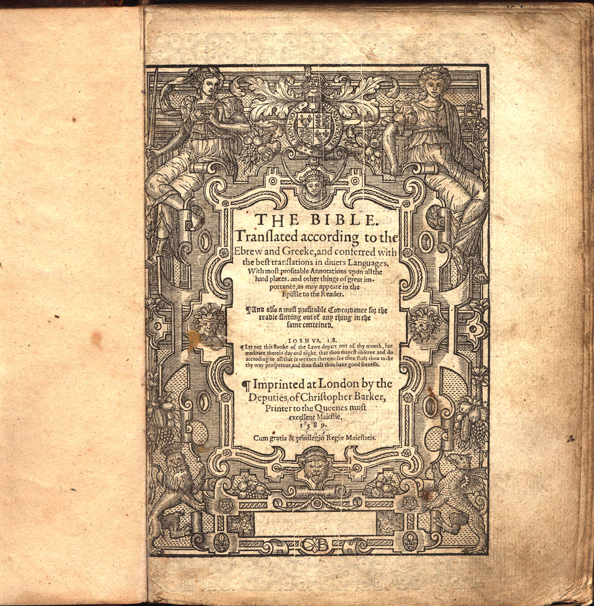 Title page of a Geneva Bible printed in 1589 by Christopher Barker, official printer to Queen Elizabeth I.